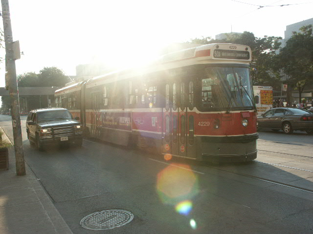 Streetcar left stranded on Queen Street West during the 2003 Northeast Blackout. Toronto, Canada. Photographer: User:camerafiend